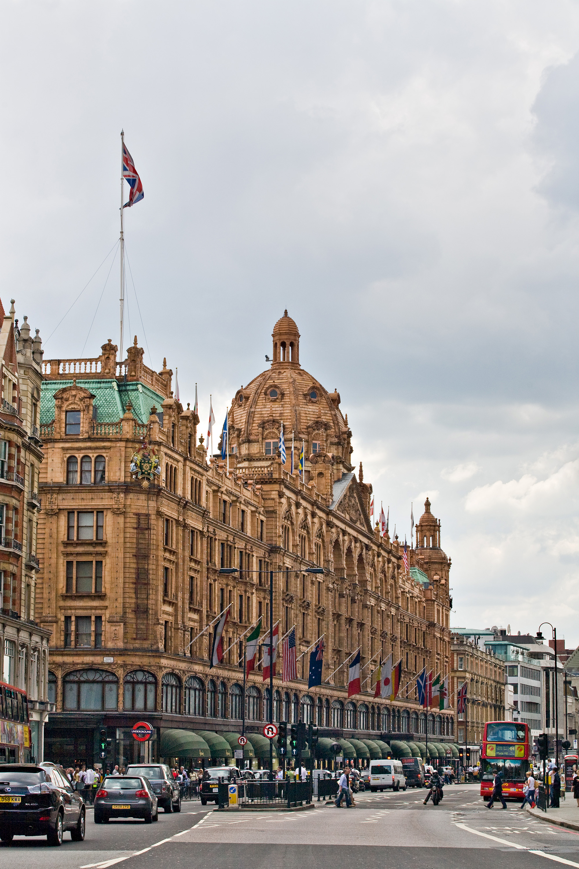 Harrods Department Store as viewed from the north-east along Brompton Road, in London, England.